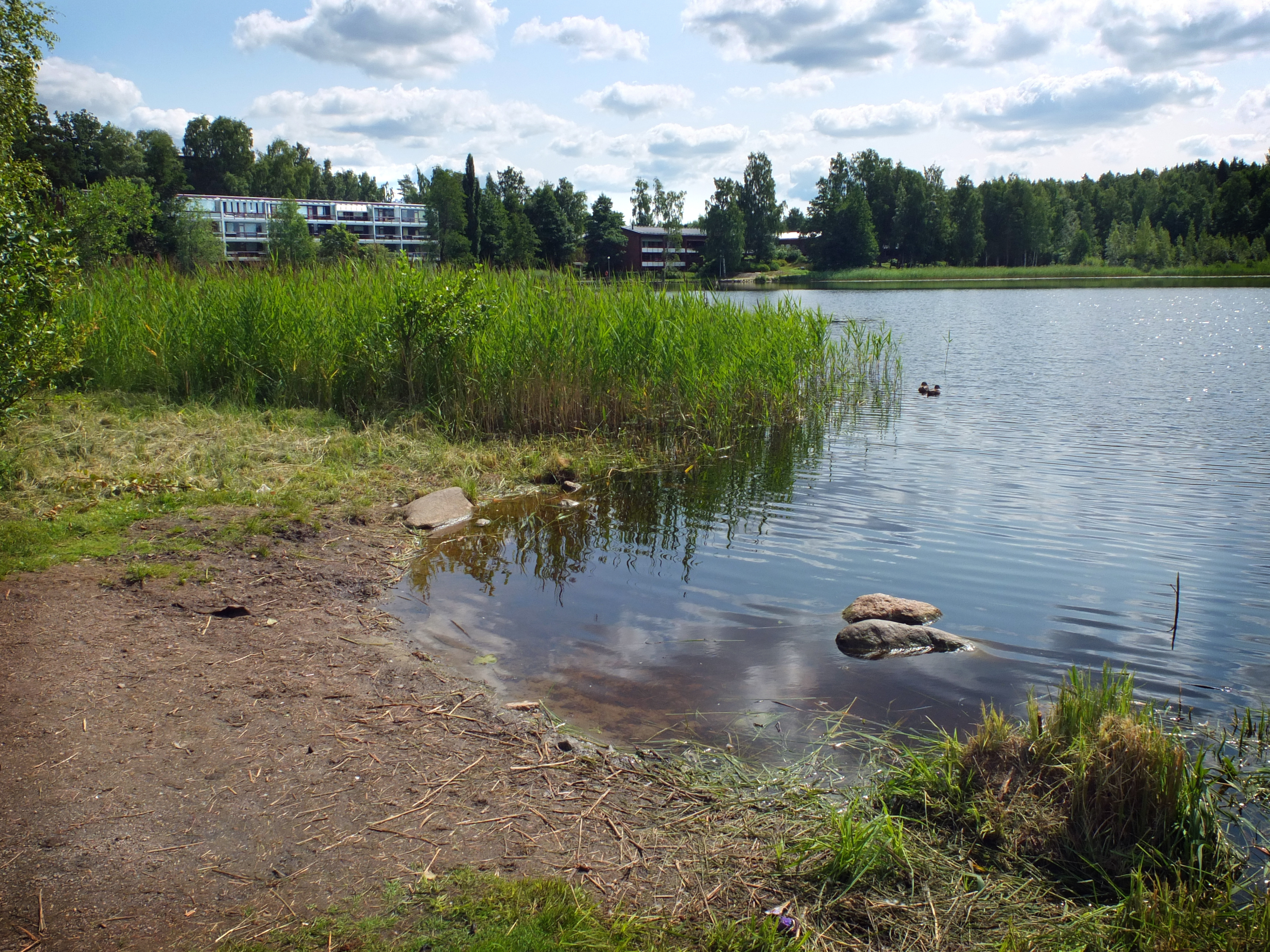 Pähkinärinne residential area, located by the Lammaslampi pond, Vantaa, Finland.